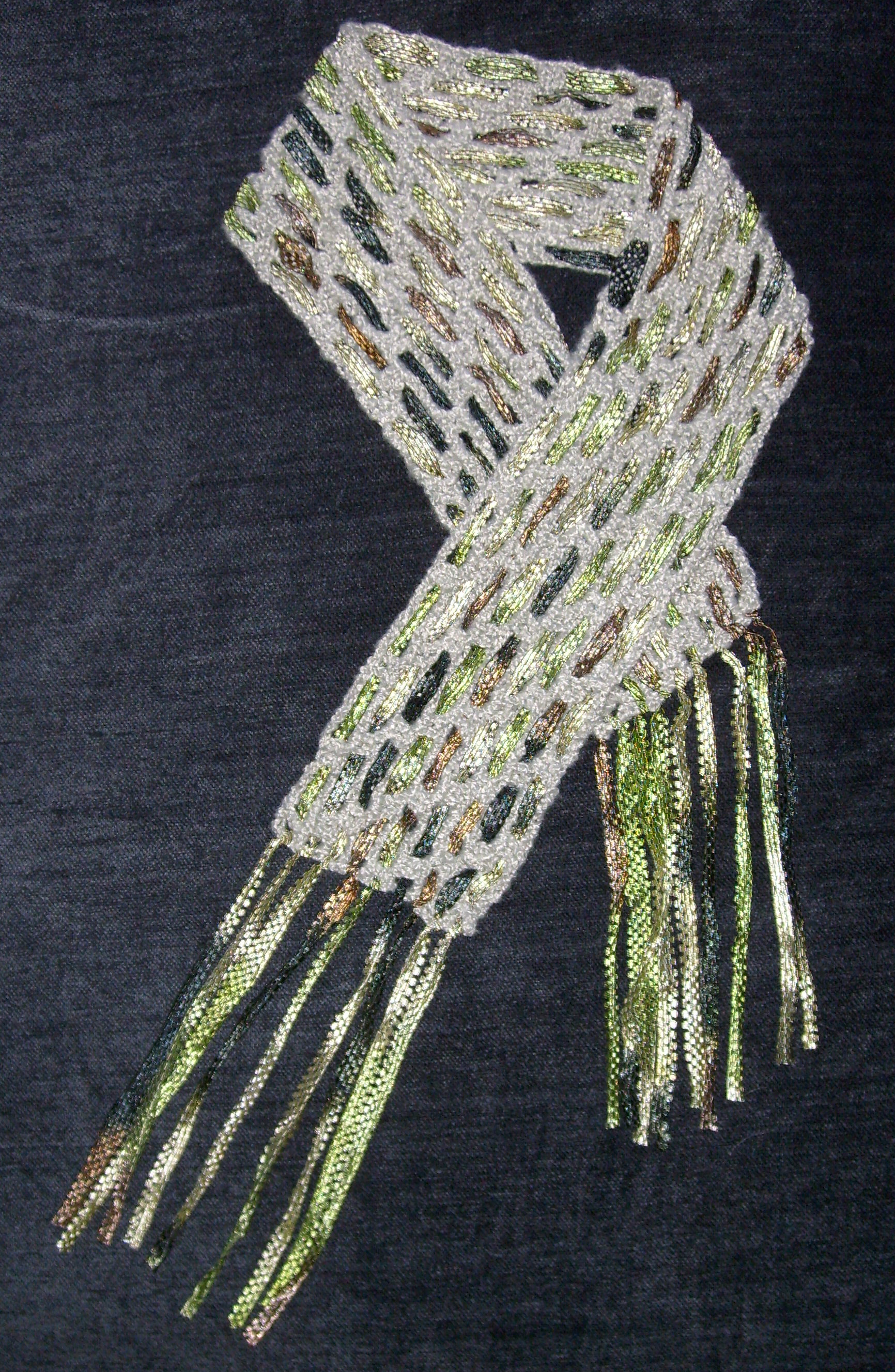 Scarf made from bamboo yarn and ribbons. Original design.